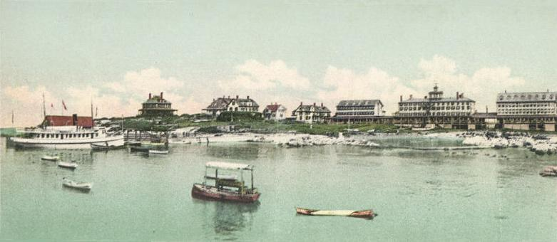 The Appledore House hotel and landing, Appledore Island, Isles of Shoals, Maine. Built in 1847 and opened the following year, it burned in 1914.